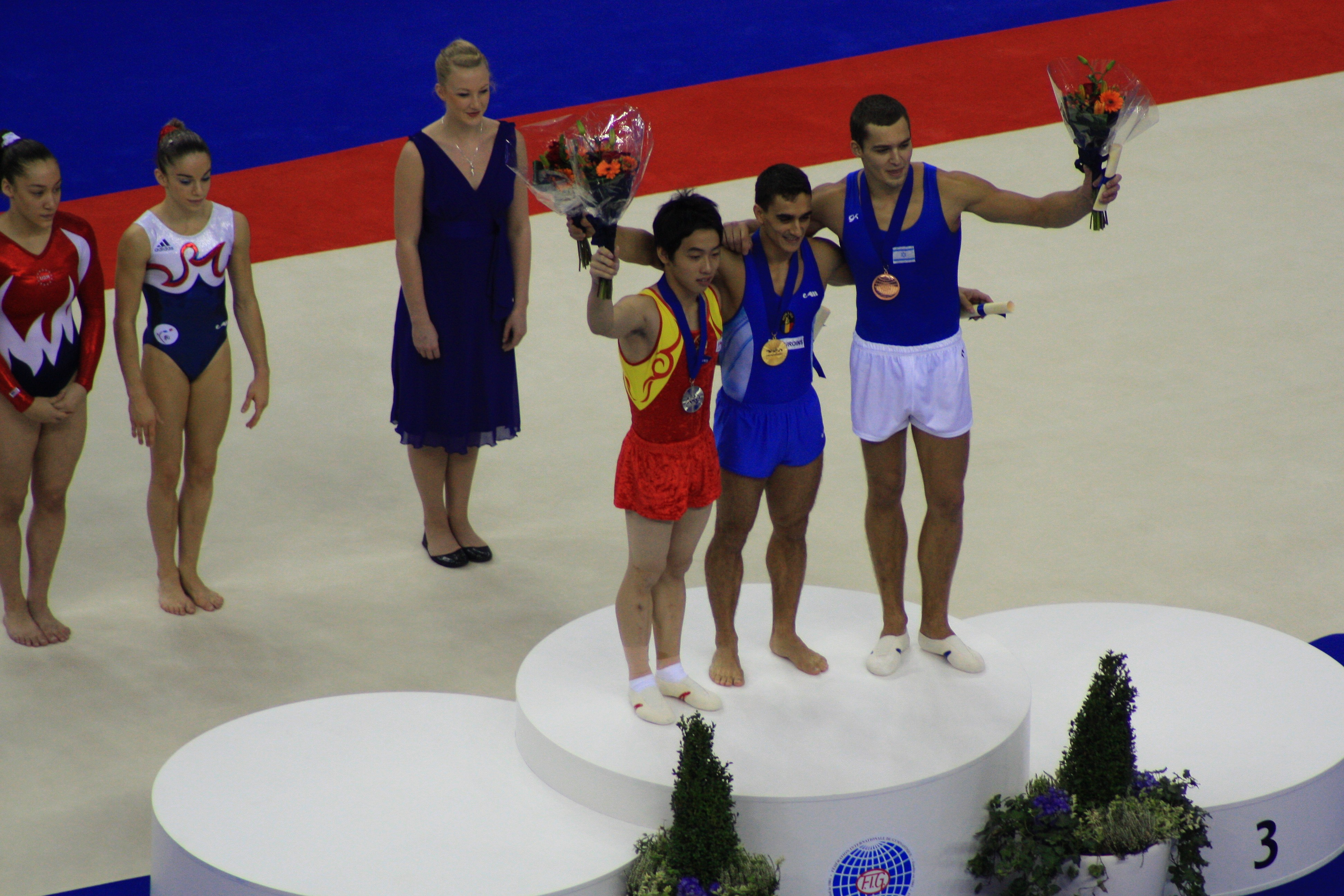 Podium of the male floor at the 2009 World Artistic Gymnastics Championships. From left to right on the podium: Zou Kai (China, 2nd place), Marian Drăgulescu (Romania, 1st place) and Alexander Shatilov (Israel, 3rd place). Behind them, on the left side, we can see Kayla Williams (USA, left) and Youna Dufournet (France, right), respectively 1st and 3rd for the female vault, waiting for their medal ceremony.